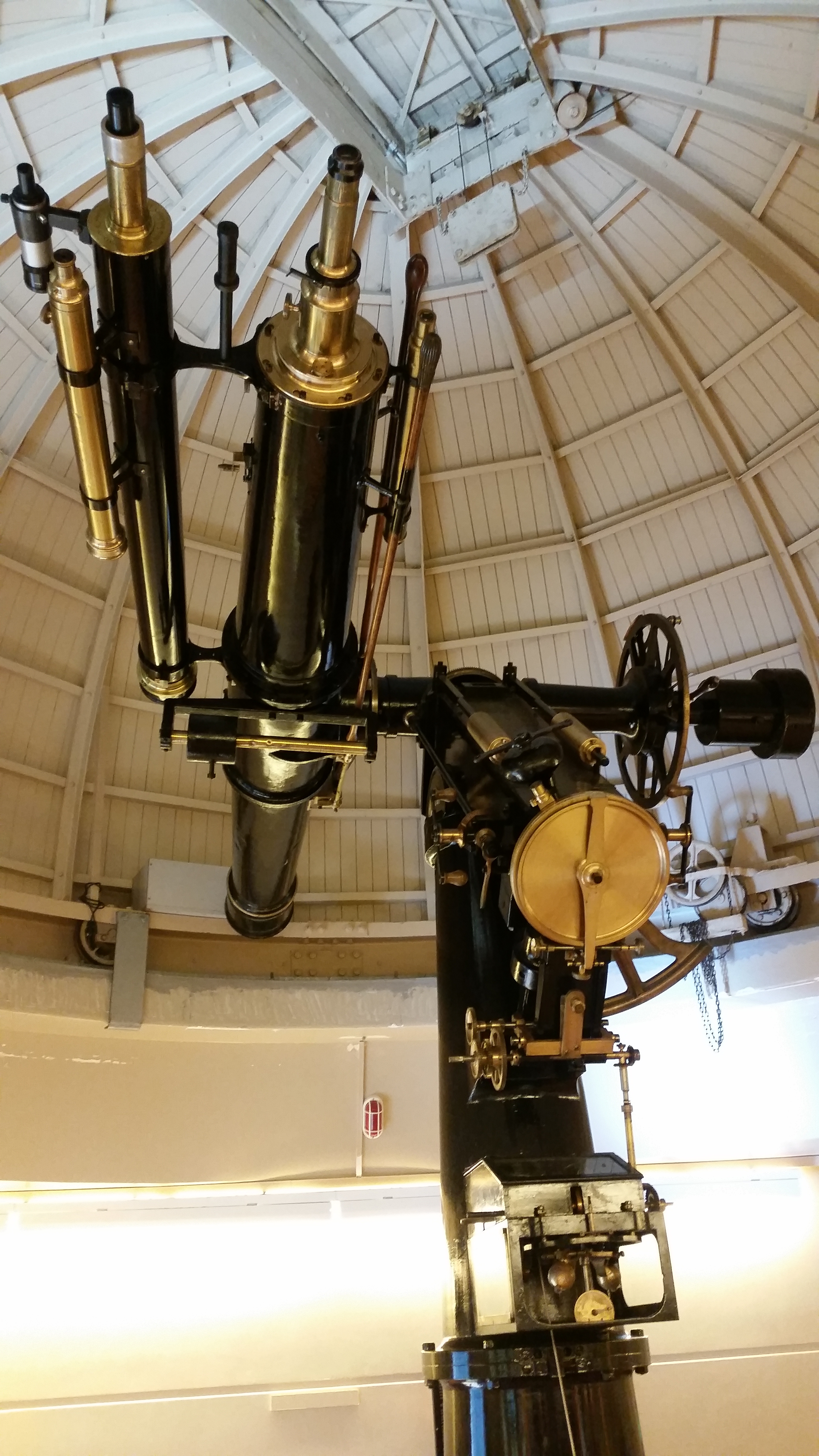 The Thomas Cooke telescope is the main telescope in regular use at Space Place. It is a 9.75-inch Cooke refractor, manufactured in 1867 in York, England, and has been housed at the Observatory since it opened in 1941. Visible in the lower right is the Grubb & Parsons clock drive, which was added to the telescope in 1879 and serves as the telescope's mechanical tracking system. The 5-inch W. Watson & Sons guide scope (attached directly to the left of the main scope) was added in either 1896 or 1905.